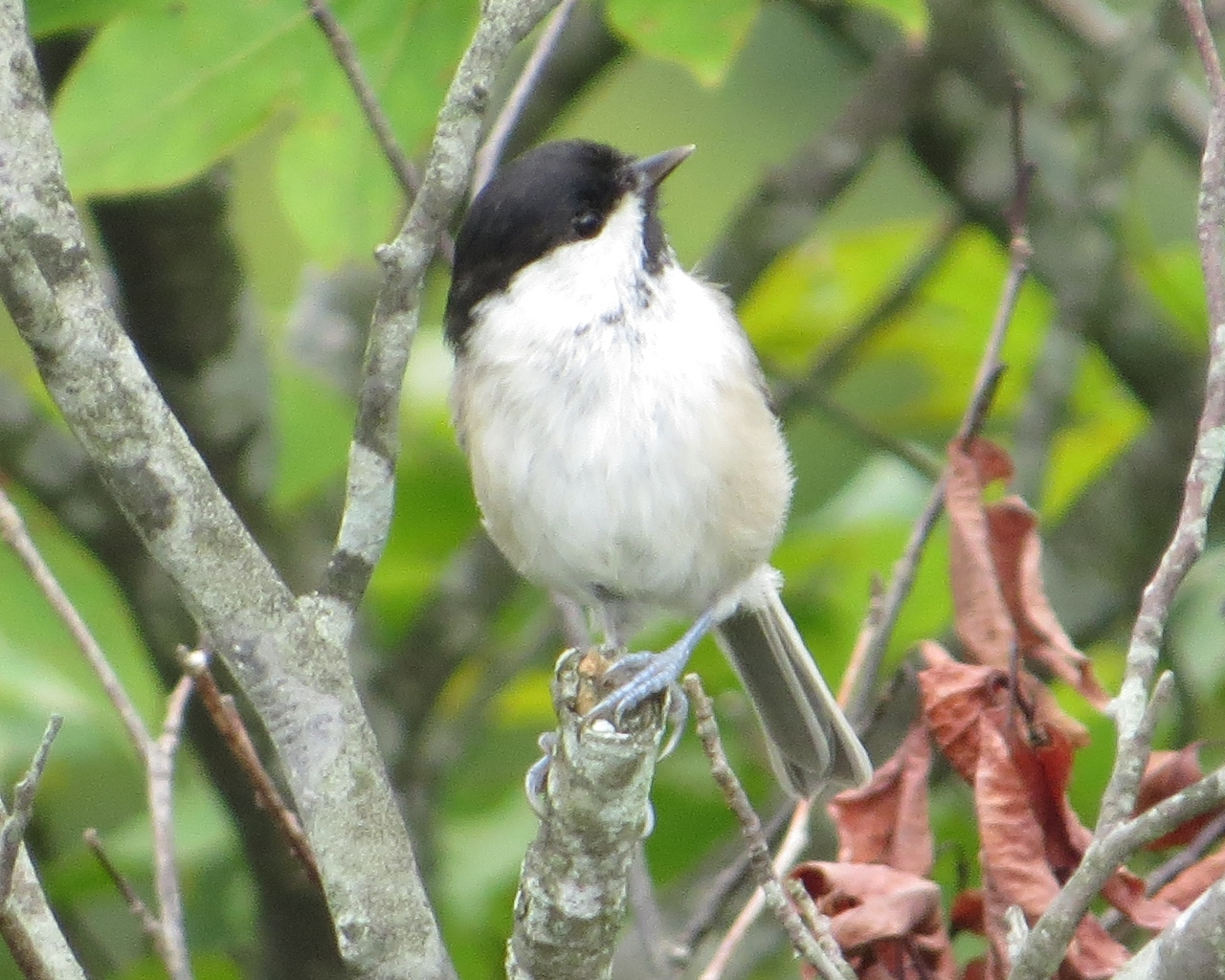 Willow tit, Poecile montanus restrictus (Hellmayr, 1900), in Yōrō Mountains, Mie pref., Japan.